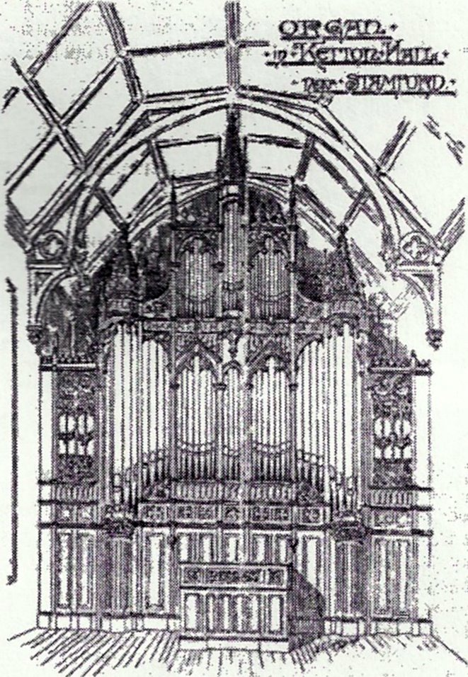 Organ in Ketton Hall as pictured in "The Musical Standard" 1893